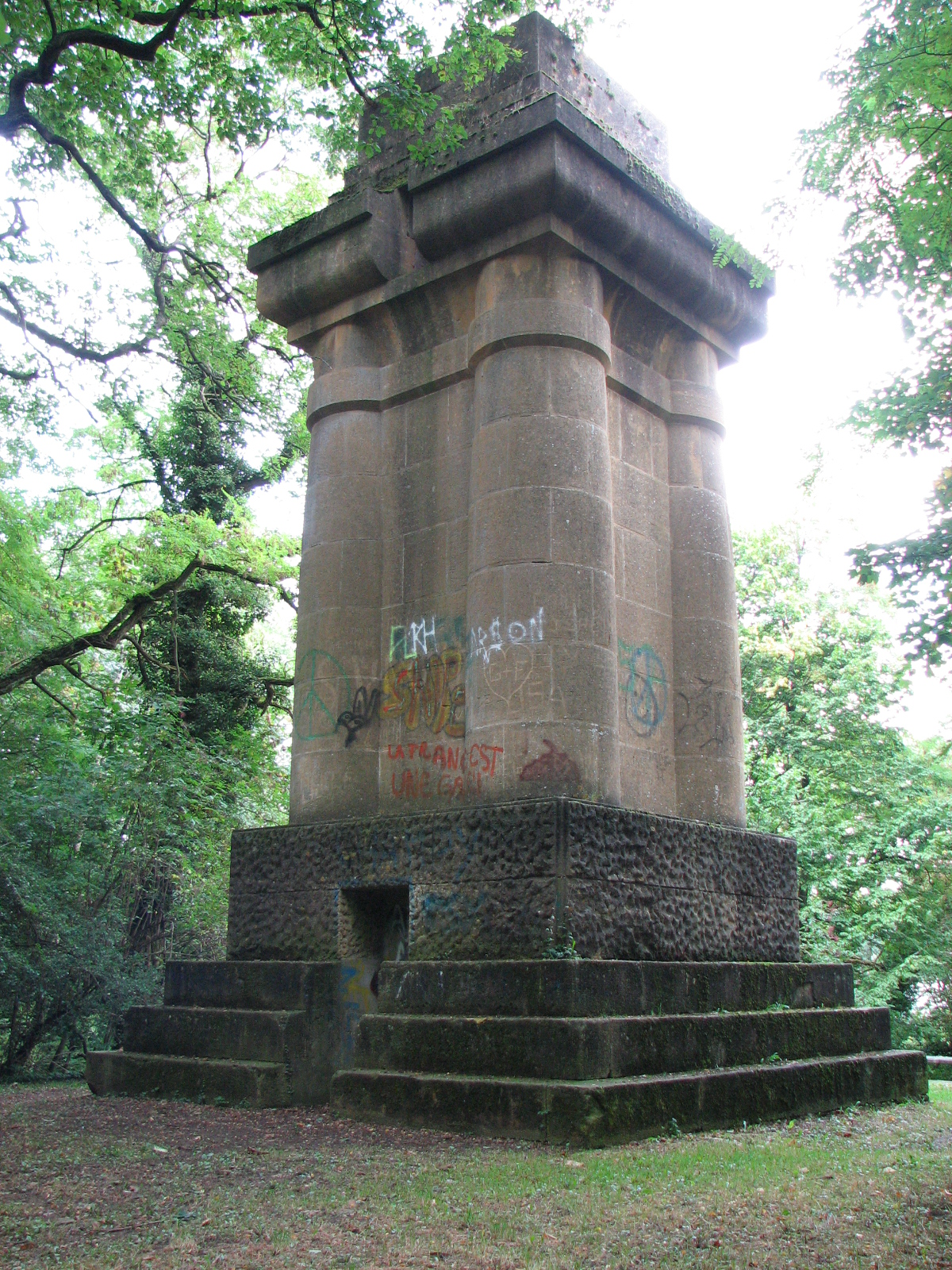 Bismarck tower upon Mount St. Quentin, Scy-Chazelles, Lorraine, France.